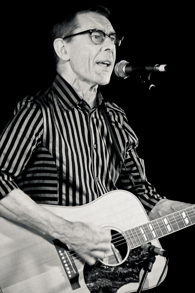 Rab Noakes played a gig at the Oran Mor Glasgow in June 2010. 'Highway to Take You Home' was his first recorded album in 1970 for the Decca label. While he is a prolific songwriter Rab also likes to sing several cover songs and he sang Radiohead's 'High and Dry.' He also sang a moving version of an older song made famous by Doris Day 'Secret Love.' Noakes has recorded on Gerry Rafferty's album 'Can I Have My Money Back' and was on an early Stealers Wheel record. His 'Branch ' single was released in 1971. He later toured with the Veraflames, and he is now involved with production, writing and performance with has his own production company 'Neon.' His sound may be referred to as a mixture of 'country with very unique interpretations of rare contemporary material.'